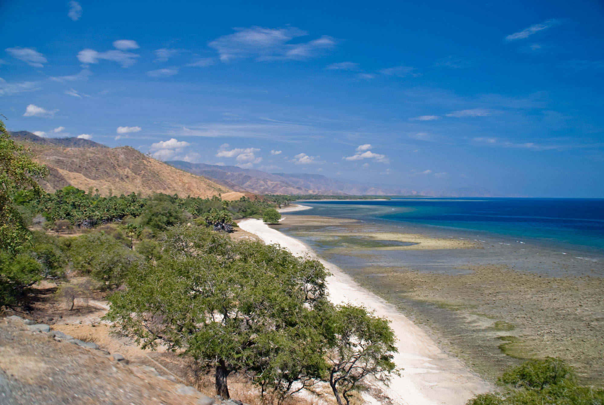 The view from the back of a pickup truck on the road between Dili and Baucau, East Timor.